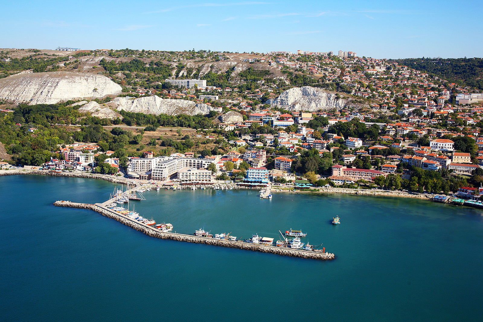 Balchik Bulgaria aerial photo from the Black Sea